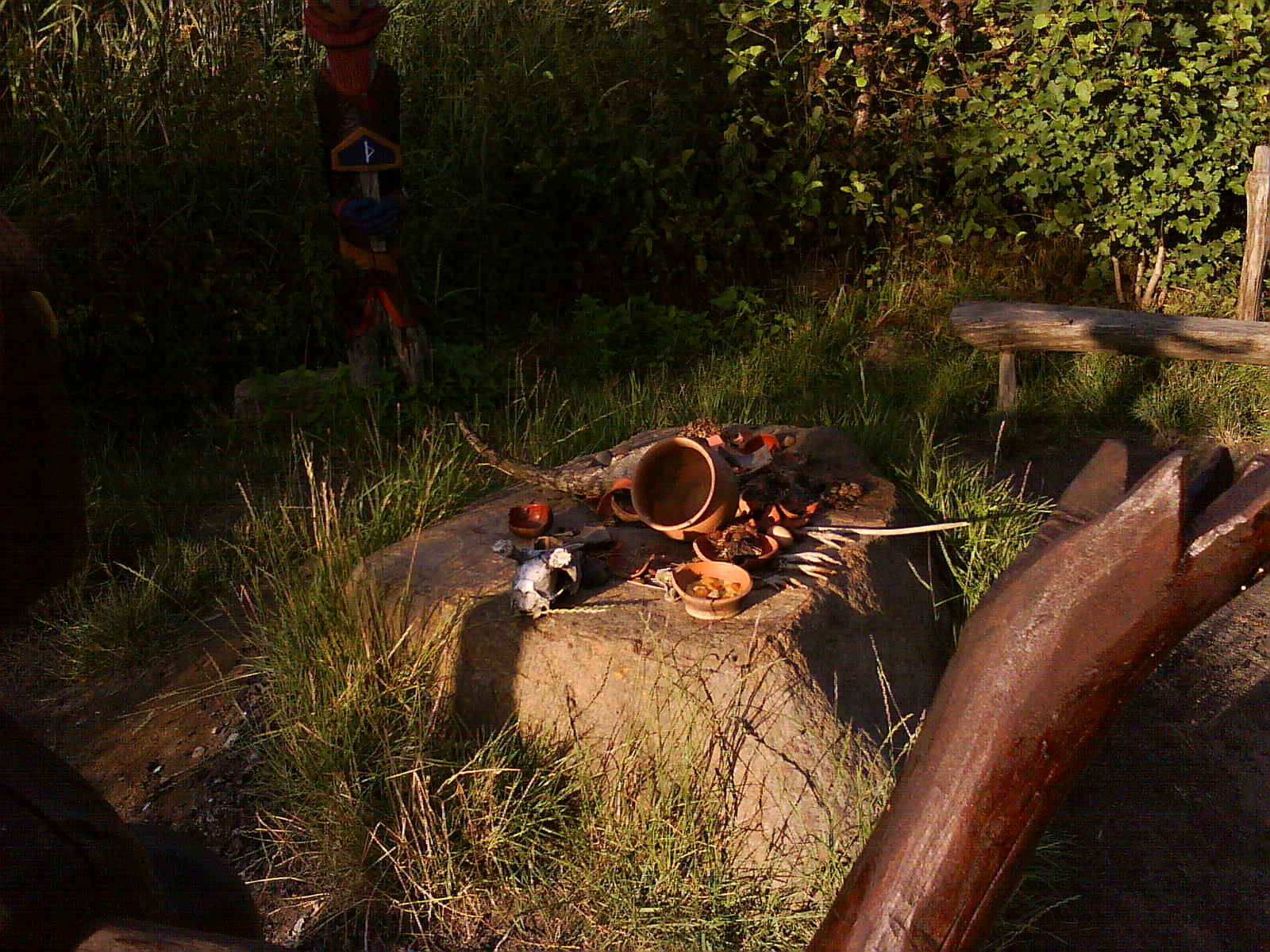 Sacrifice at a reconstructed pre-christian vé, at Bork vikingehavn, Denmark